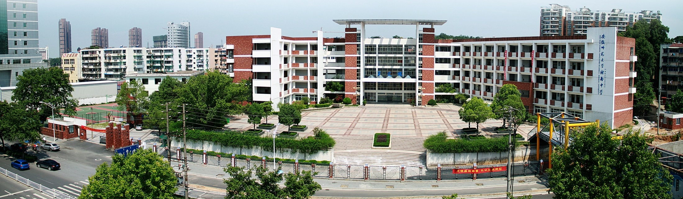 Panoramic view of the west part of The High School Affiliated to Anhui Normal University, with the Cuiwen Building in it